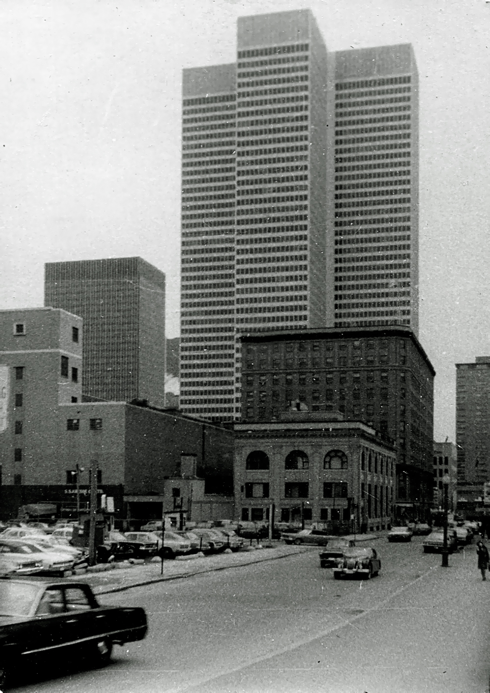 La_Ville_building._Montreal.(The place where UK national gold reserve during WWII were saved)